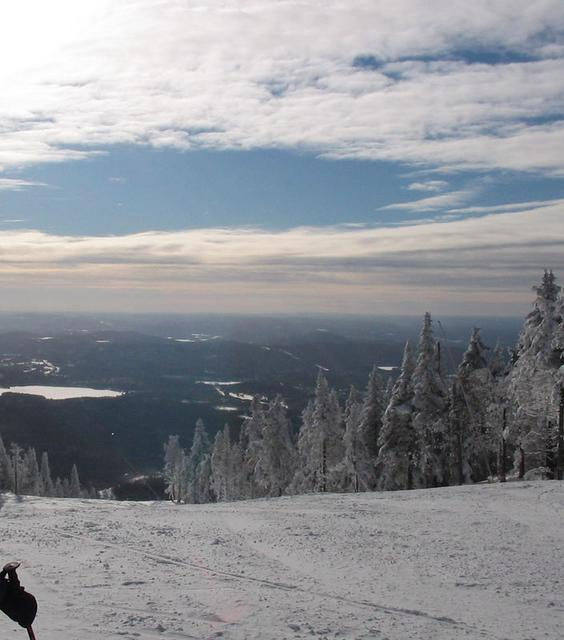 Author: Steven W. Smith Taken at Mont Tremblant Ski Resort, Québec, January 20th 2004.